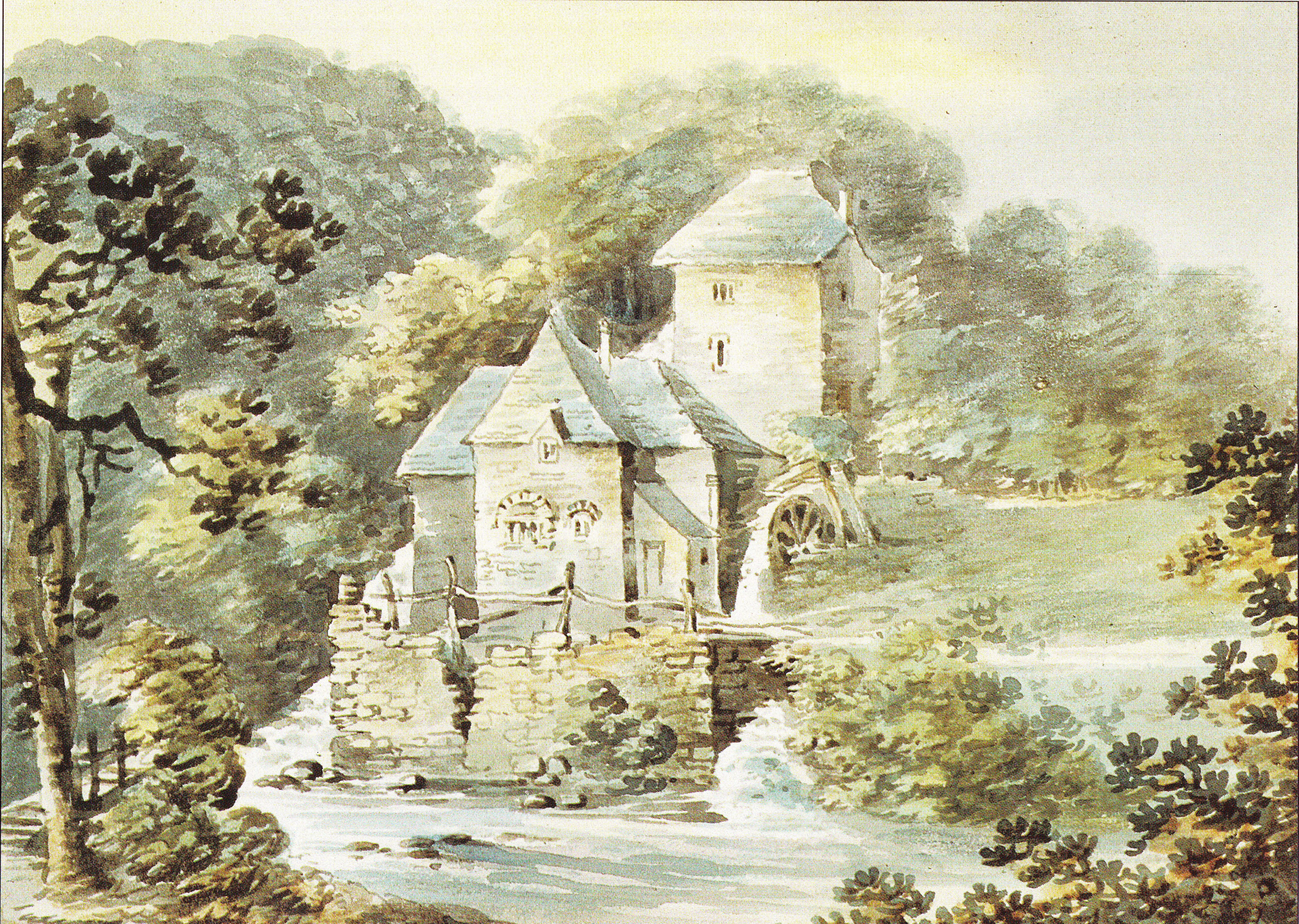 "Nuneham Mills", 1797 watercolour by Rev. John Swete of Newnham Mill, the mill of the manor of Newnham, Plympton St mary, Devon. Devon Record Office 564M/F13/65